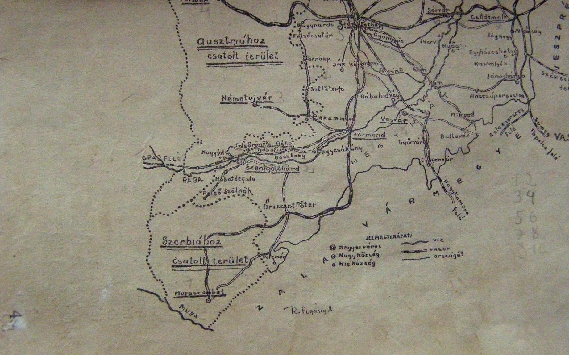 The map of the District of Szentgotthárd and Vas country (after Trianon)